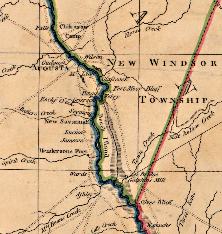 Cropped image from a 1780 map of Georgia and South Carolina, showing Augusta, New Windsor Township, Fort Moore (near old Savannah Town), New Savannah, Galphin's Mill and Silver Bluff, and the Chickasaw lands opposite Augusta. Obtained from the US Library of Congress